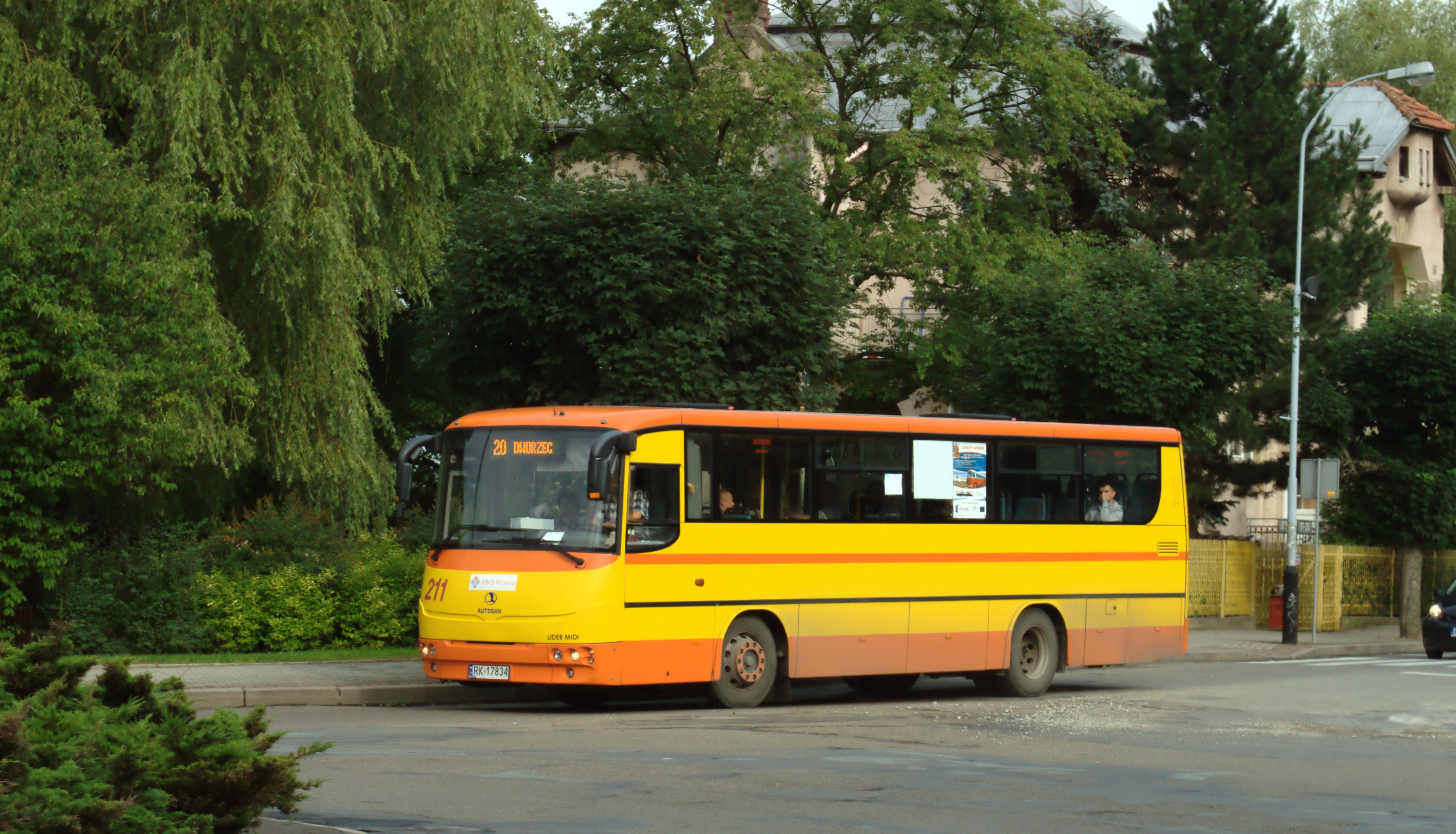 A Public transport city bus in Krosno at Lwowska Street, Poland. Autosan A1010T 2 Lider Midi (#211), built 2005, MKS Krosno operator. This photo of Subcarpathian Voivodeship was taken during Wikiekspedycja 2011 set up by Wikimedia Polska Association.You can see all photographs in category Wikiekspedycja 2011. The making of this document was supported by Wikimedia Polska.